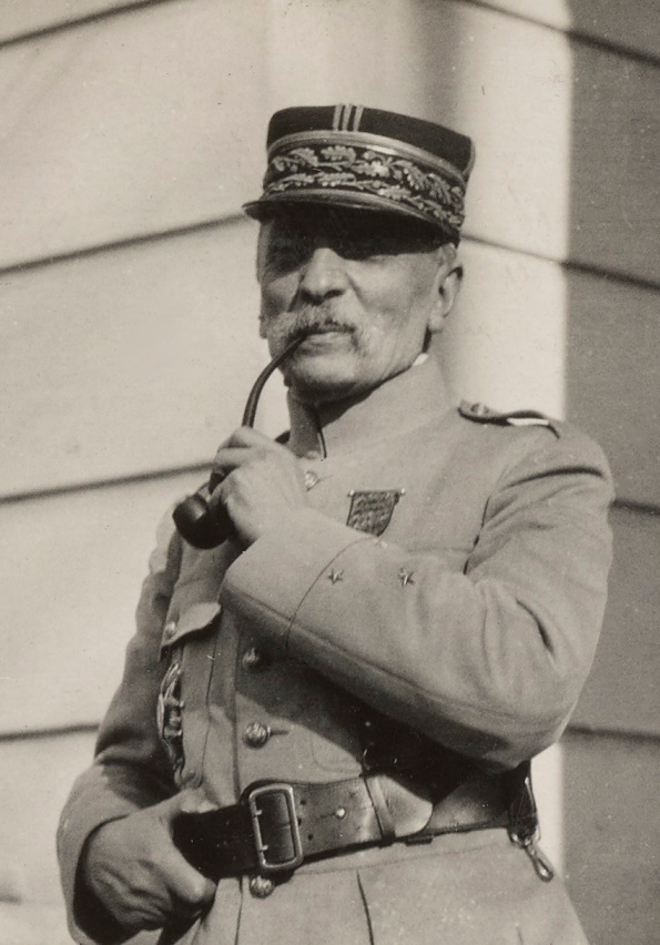 Gen De Maudhuy in front of his headquarters, Soissons, France